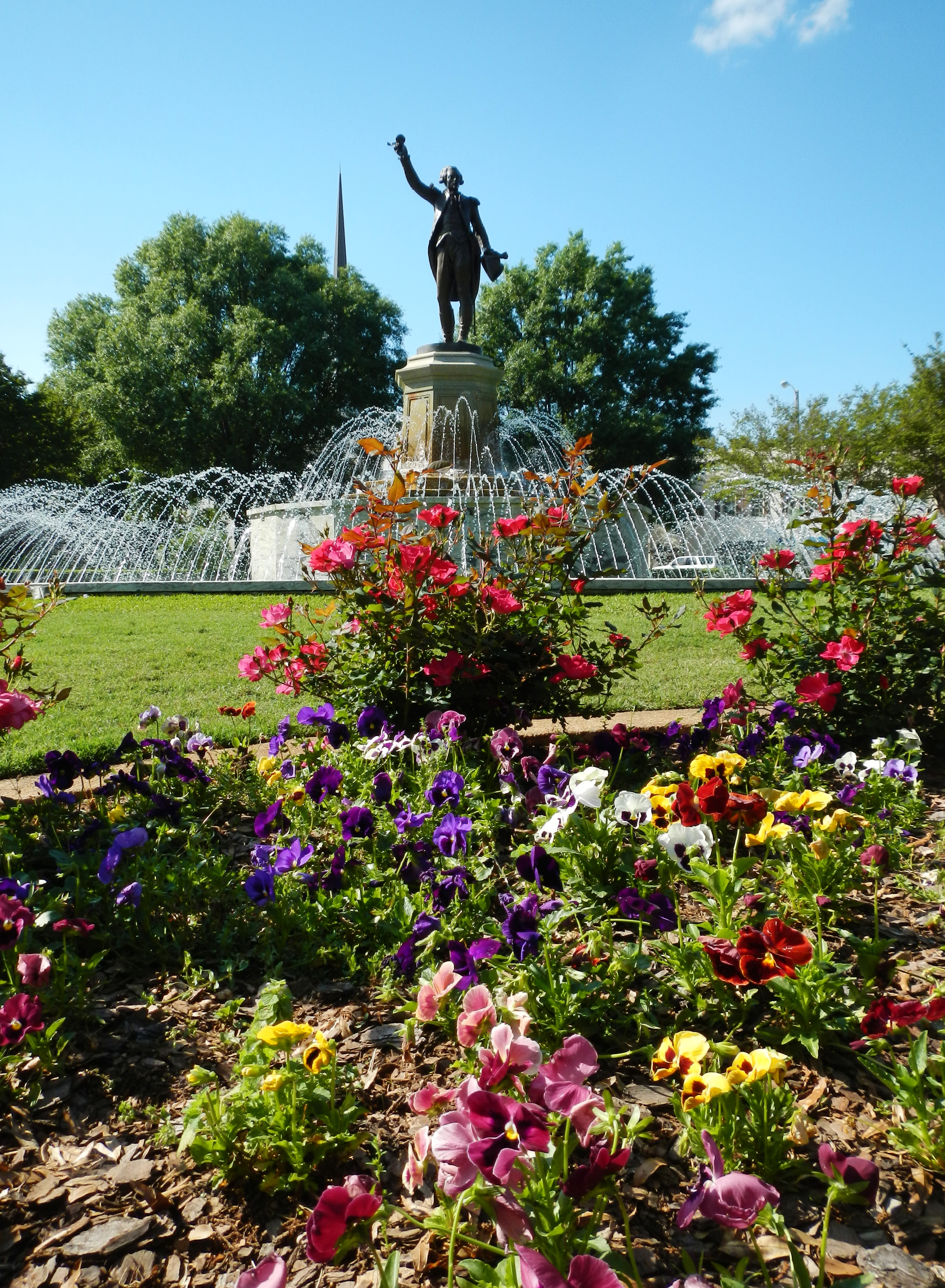 This is a photograph of the courthouse square in LaGrange, Georgia.